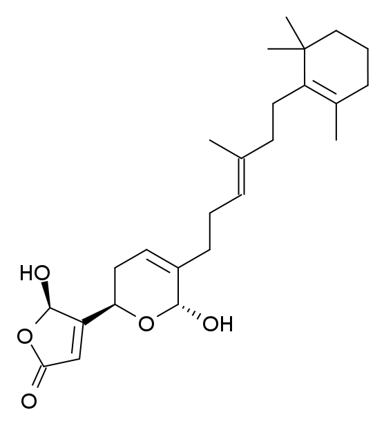 Structure of manoalide